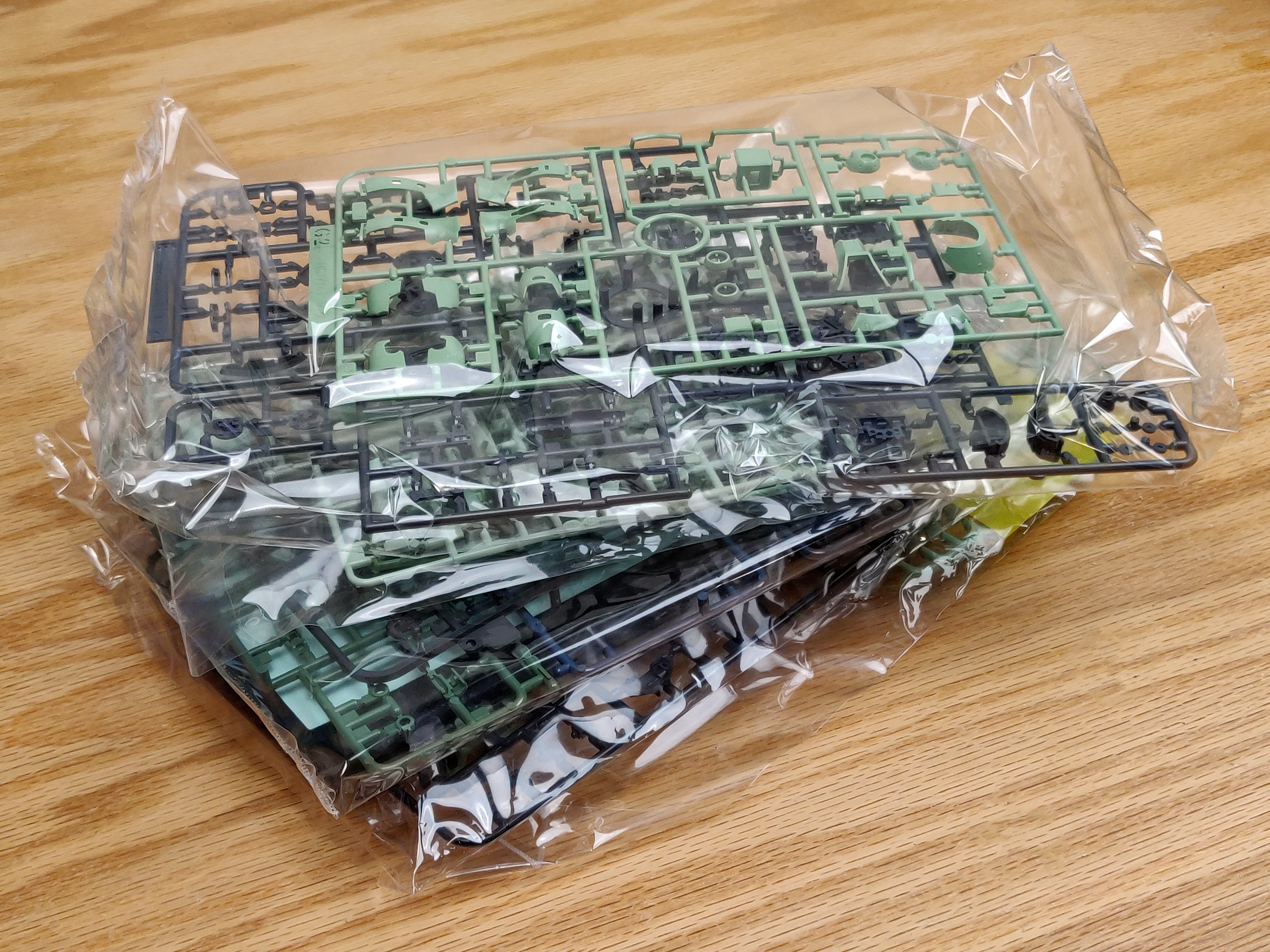 These are all the plastic parts of a Real Grade MS-06F Zaku II plastic model, removed from the box to illustrate how many parts are in the kit.